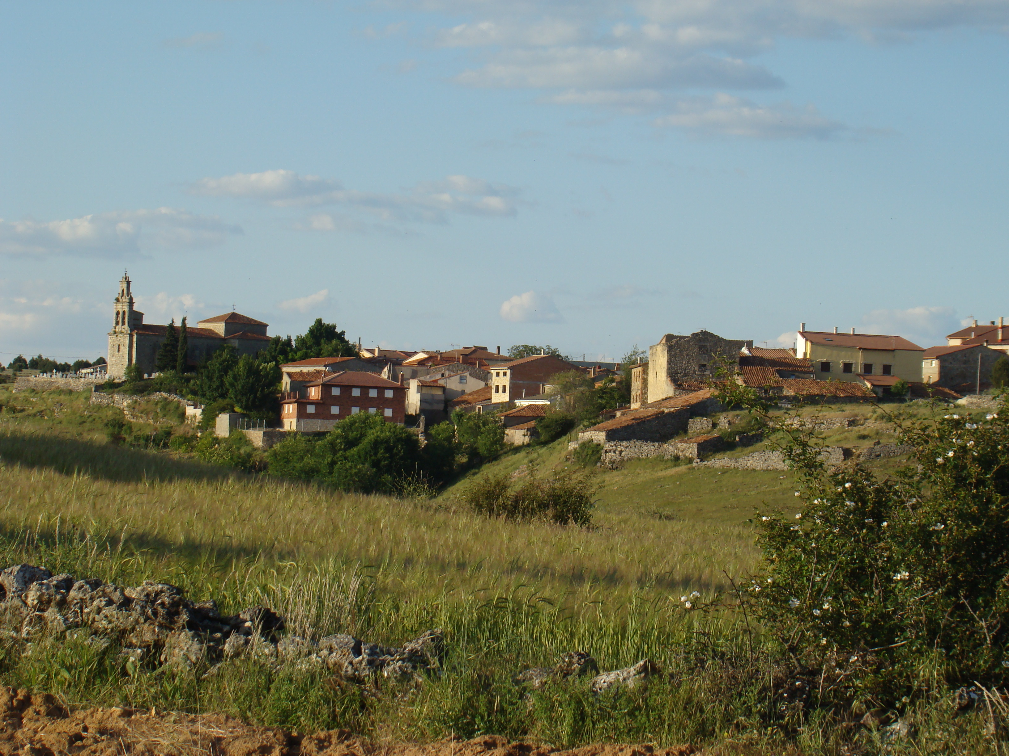 Huertahernando in the province of Guadalajara, Spain. Overview.